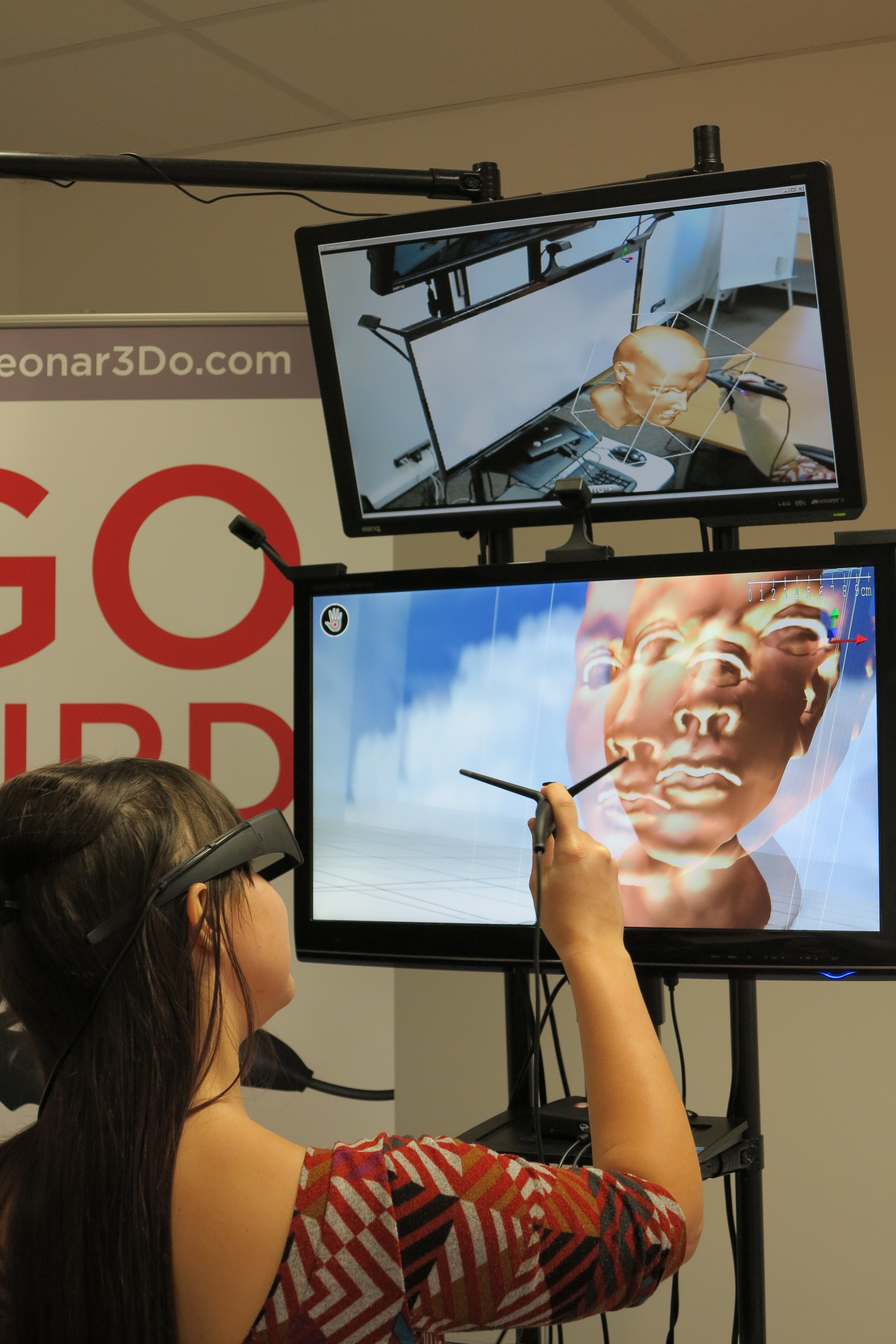 LeoCapture in Use. In the upper screen viewable what the software is recording. Photo taken in Talentis Business Park, Herceghalom, Hungary